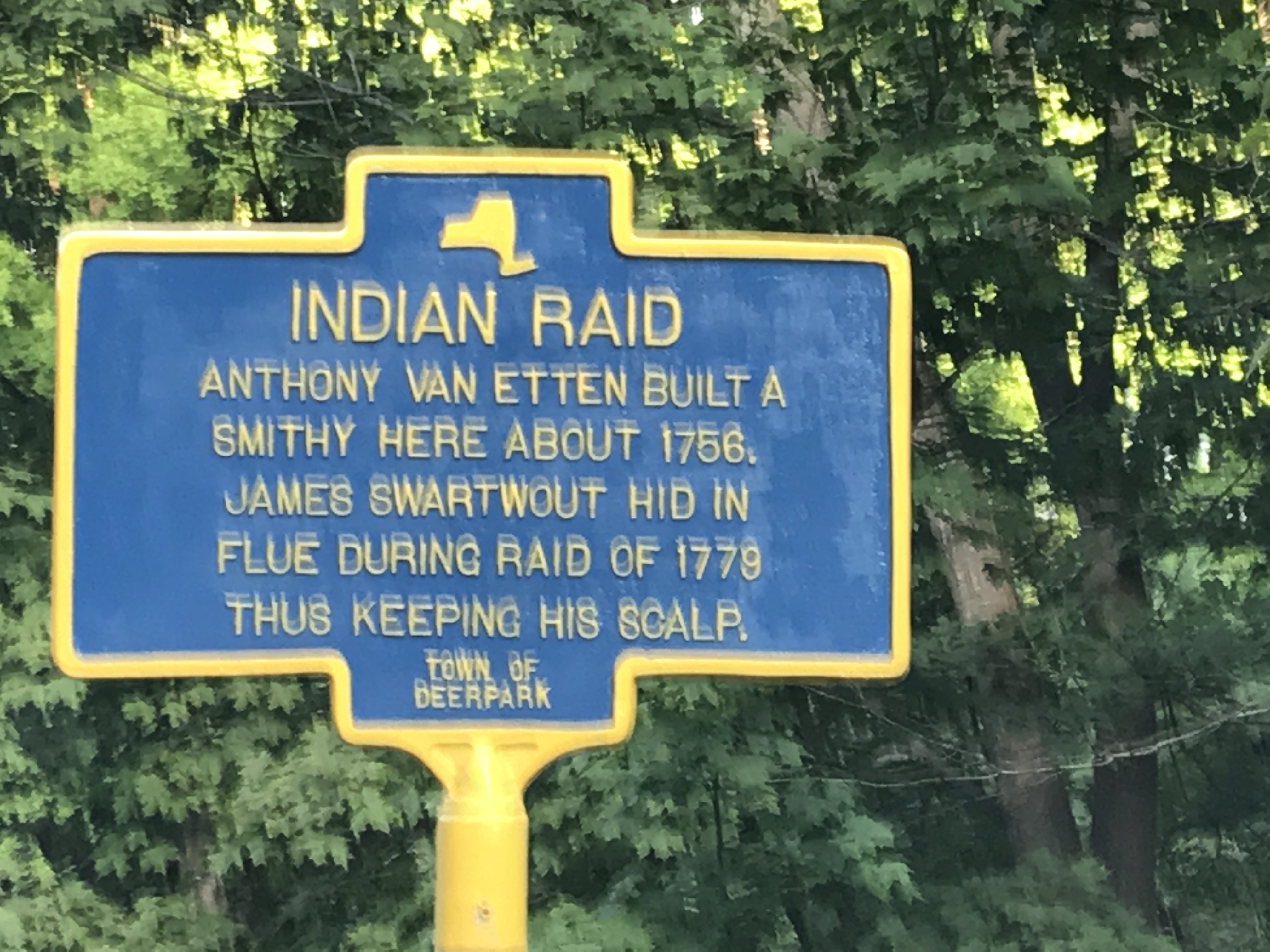 Historic marker on Neversink Drive Van Etten house attacked in Indian Raid, resident hid in chimney, 1779, Town of Deerpark, Orange County, New York. Orange County CR80.